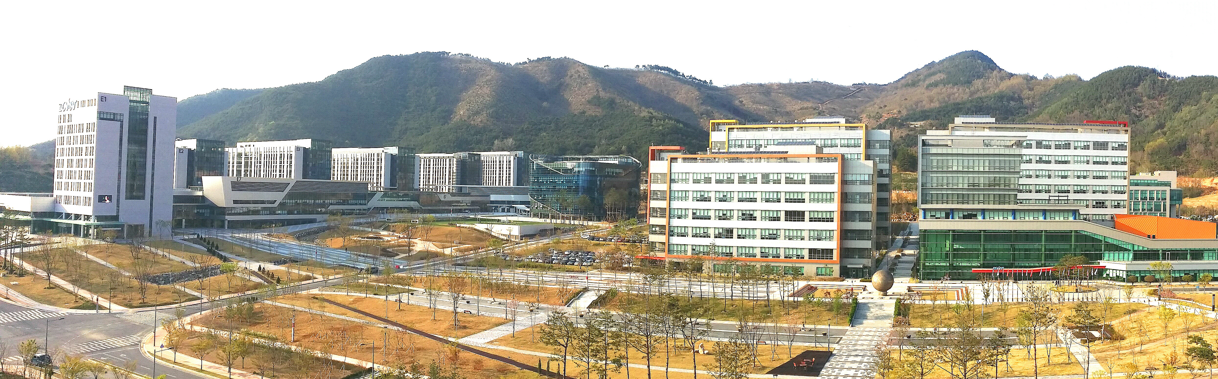 DGIST Panorama